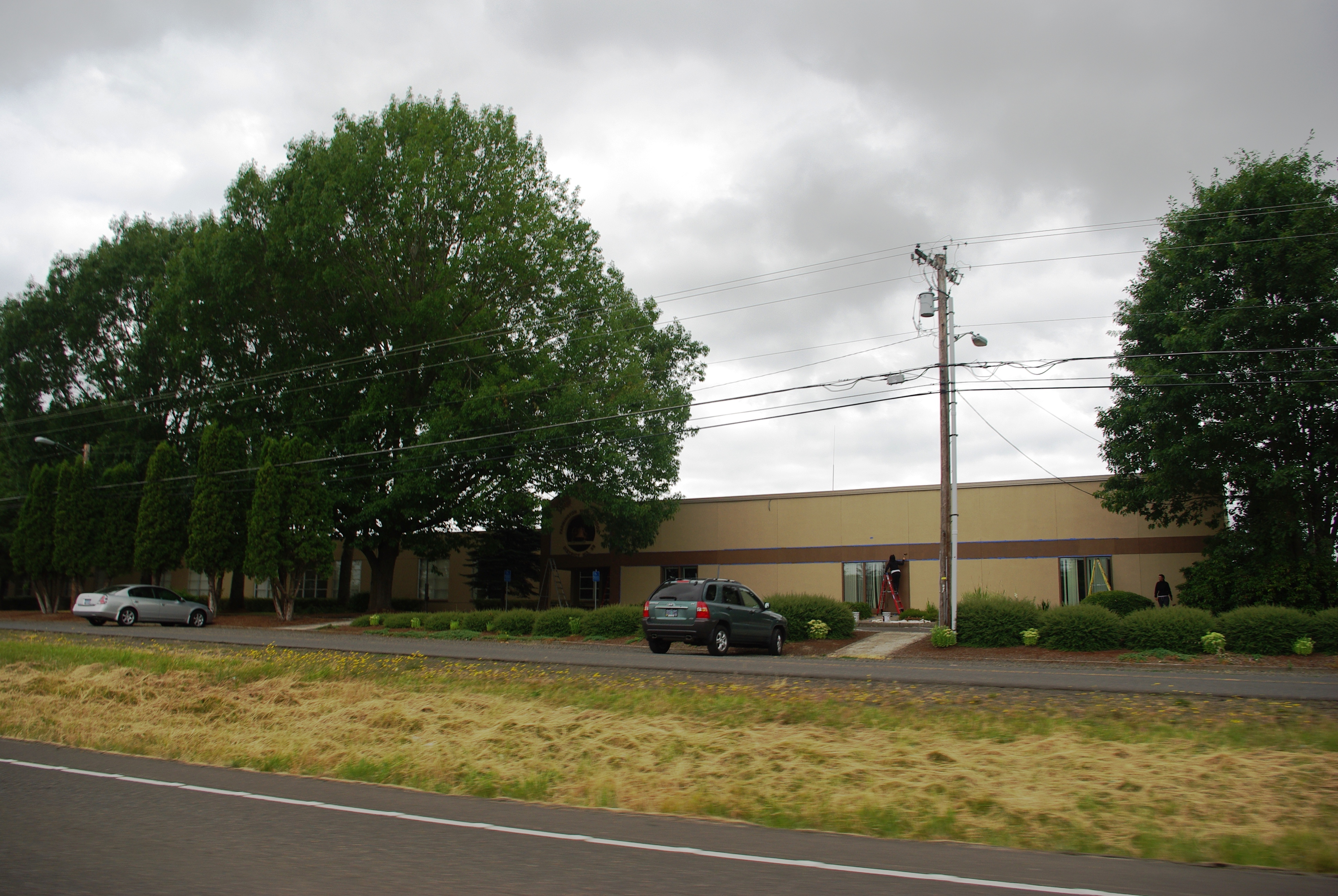 Farmington View Elementary School in Hillsboro School District, Oregon, USA.